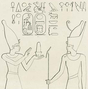 Sunk relief in the rock-chapel of Thutmose III in Jebel Dosha; inner chamber, east wall: the king Thutmose III offers to the deified king Senwostret III